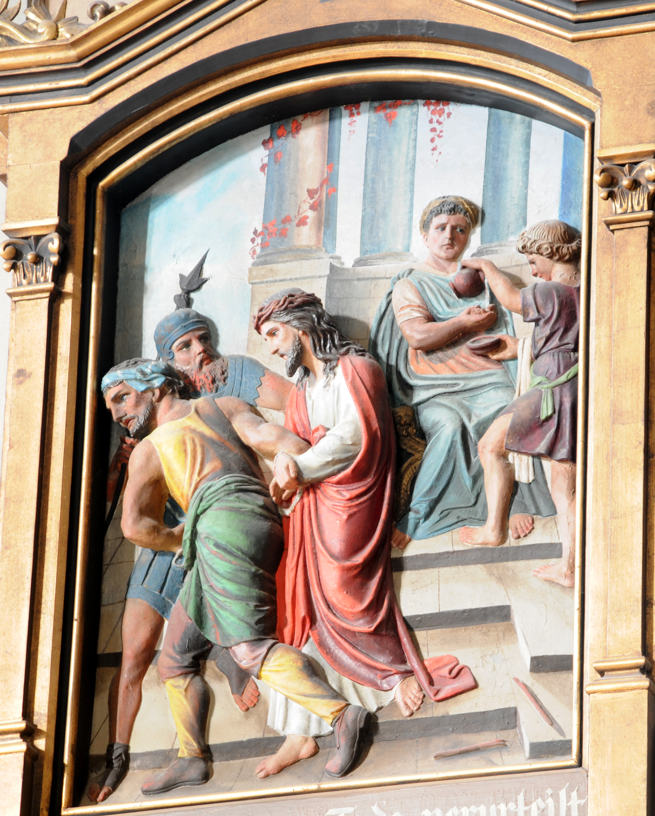 Station of the cross by Ferdinand Demetz St. Ulrich in Gröden - Ortisei Val Gardena Italy.